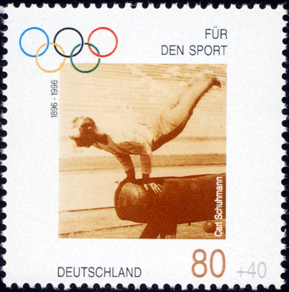 Stamp from Deutsche Post AG from 1996, Carl Schuhmann